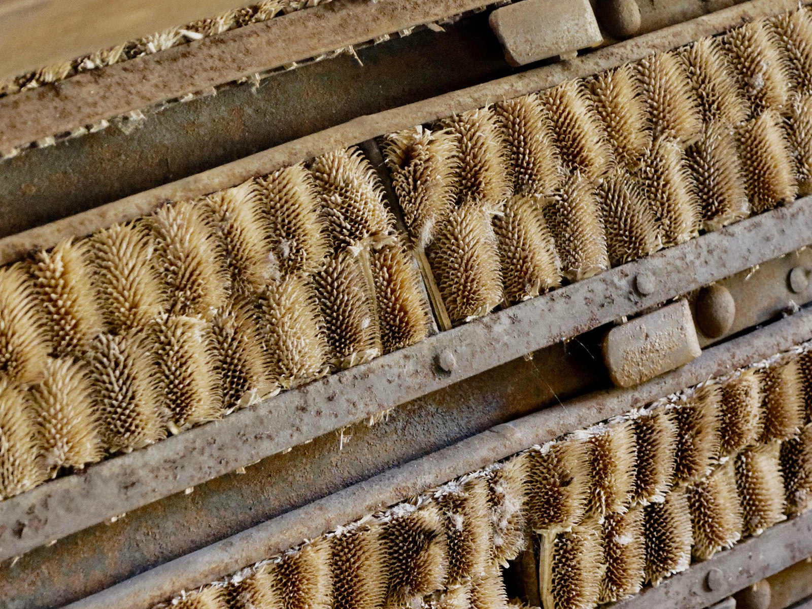 Part of a carding machine located in Knockando woolen mill. Picture shows traditional way of carding with use of Teasel.